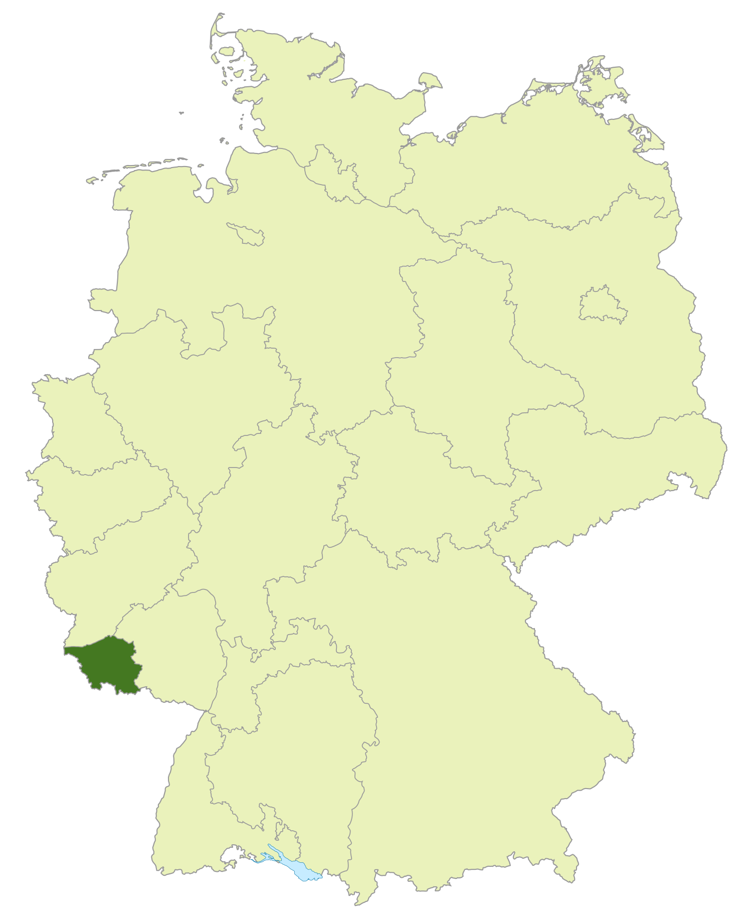 Map of regional soccer association Saarland, Germany